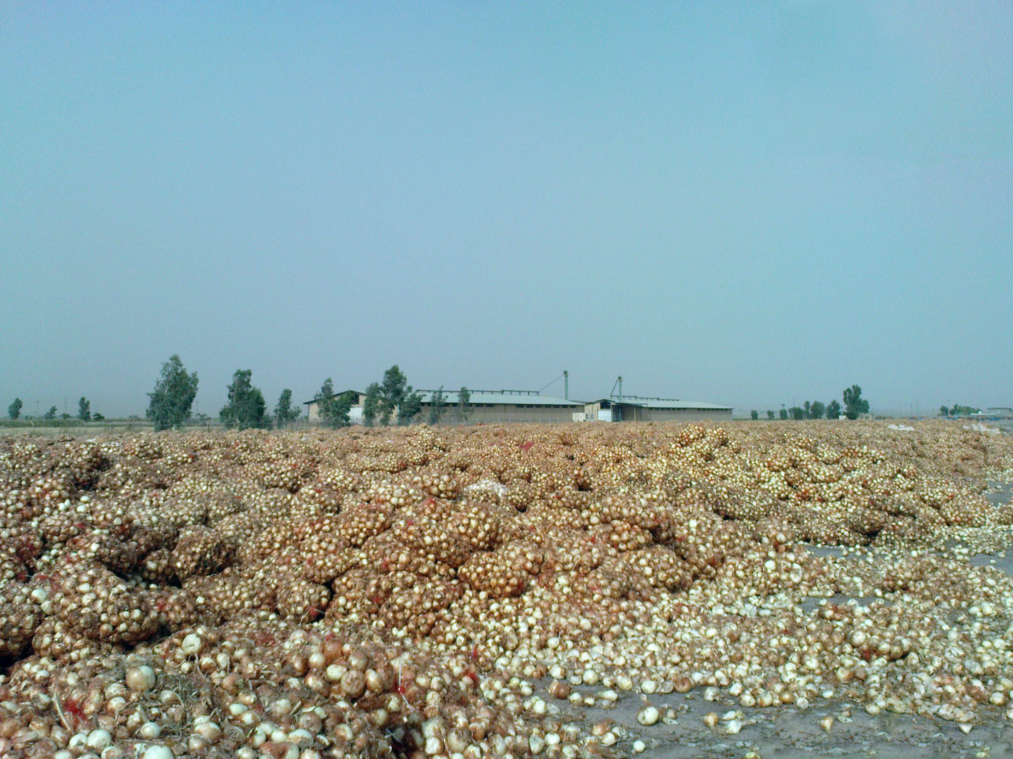 پیاز در دزفول